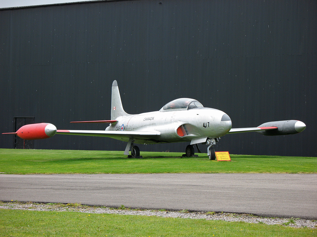 A Canadair Silver Star CL-30 (CT-133) photographed at RAF Elvington on the 18 of August 2007 by Brian Burnell.